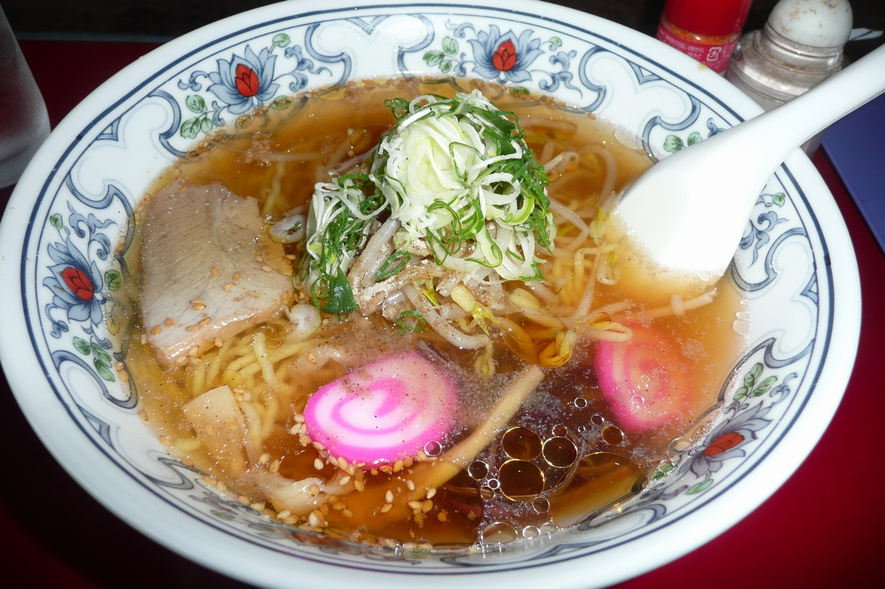 Agodashi Ramen (Ikitsuki, Hirado City, Nagasaki, Japan) "Ago" means Flying fish.